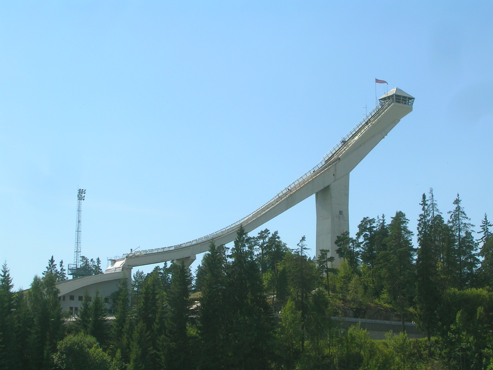 Holmekollen ski jump, Oslo